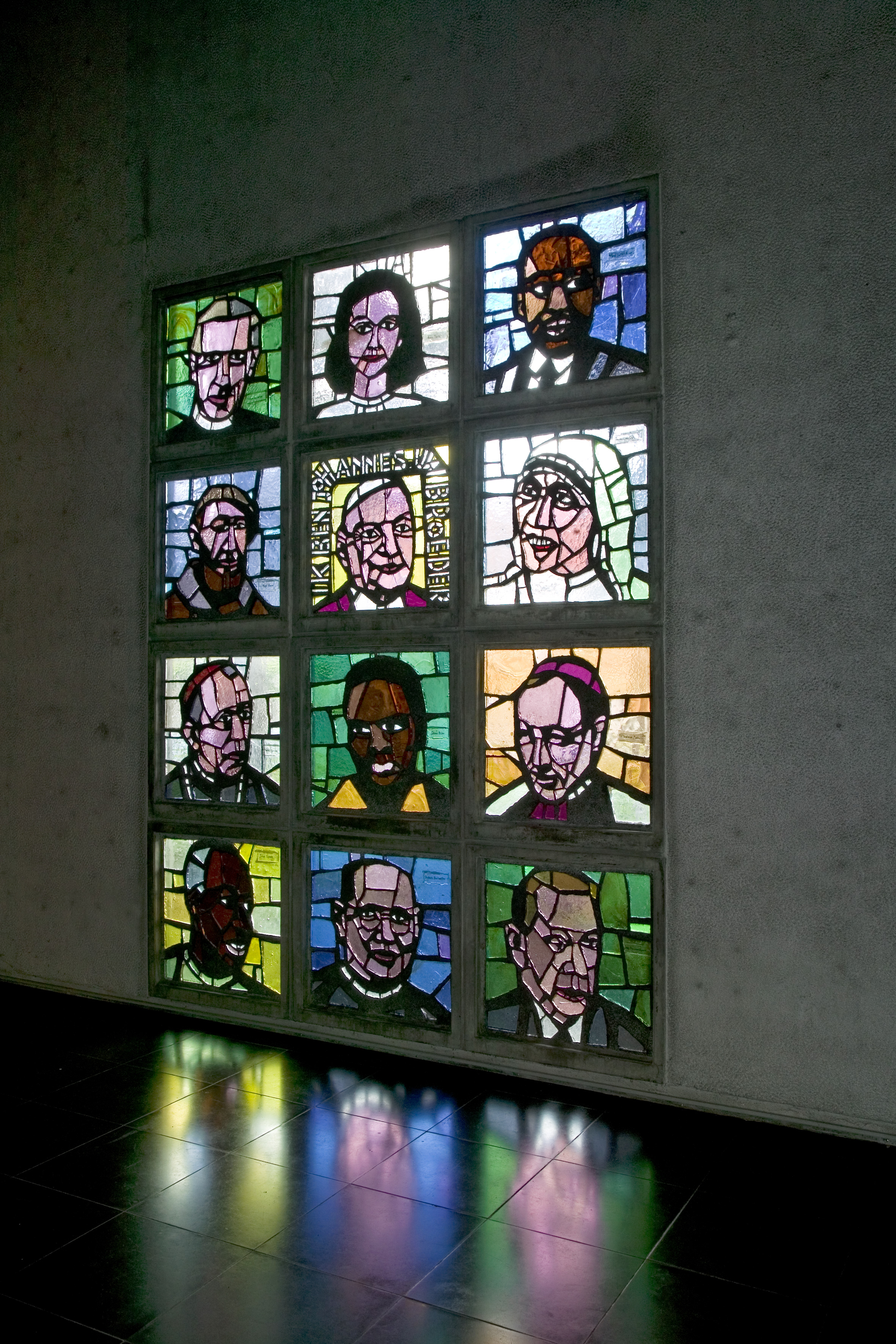 Modern saints & martyrs: 1. Teilhard de Chardin, 2. Anne Frank, 3. Martin Luther King, 4. Abbé Pierre, 5. Pope John XXIII, 6. Mother Teresa, 7. Dom Helder Camara, 8.Steve Biko, 9. Wilhelmus Bekkers, 10. Julius Nyerere, 11. Dietrich Bonhoeffer, 12. Dag Hammerskjoeld.